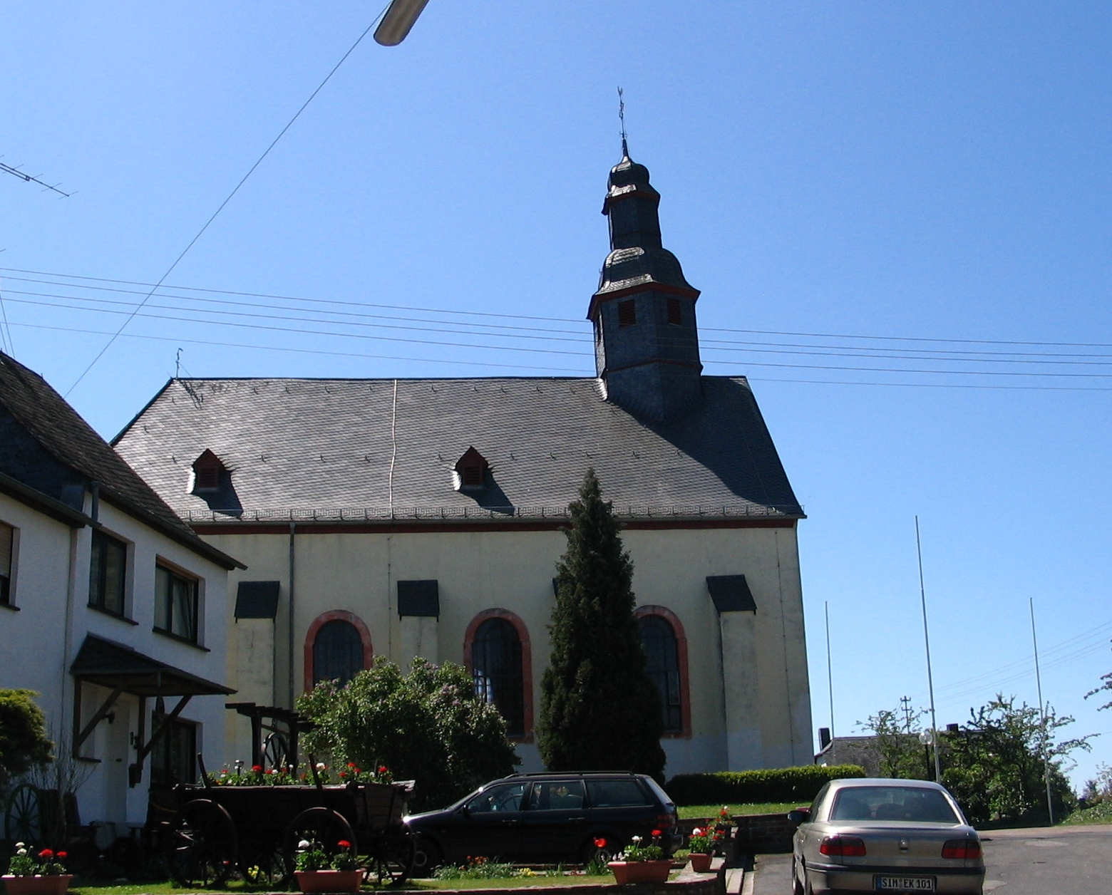 center of village Dommershausen in the Hunsrück landscape, Germany